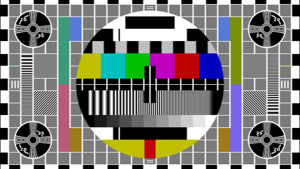 A test pattern of the type produced by the Philips PM5644 test pattern generator.